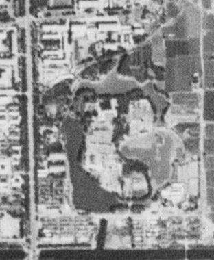 Tuanjiehu Park. Spatial tentatively corrected. 中文（中国大陆）: 团结湖公园。空间上尝试性矫正过。